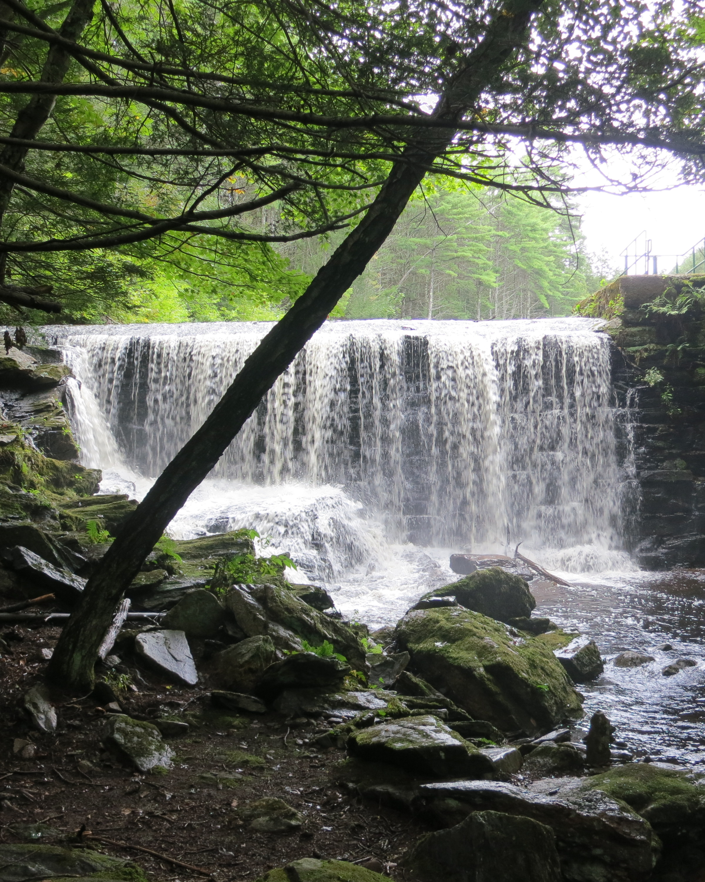 Pelham Conxervation Ara